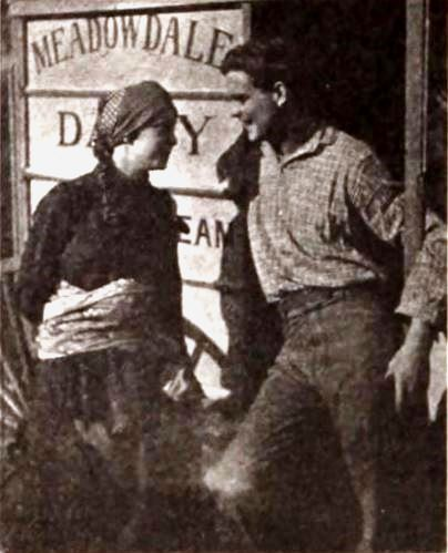 Still from the American drama film Bright Skies (1920) with ZaSu Pitts and Tom Gallery, on page 66 of the April 24, 1920 Exhibitors Herald.